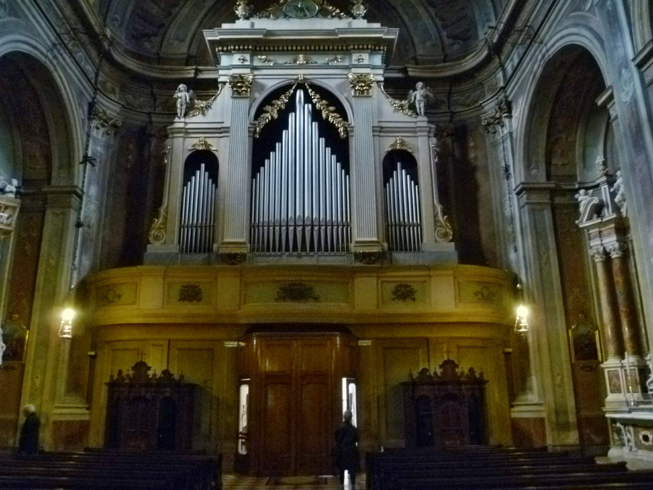 Organ of the church Maria Assunta; Riva del Garda, Italy